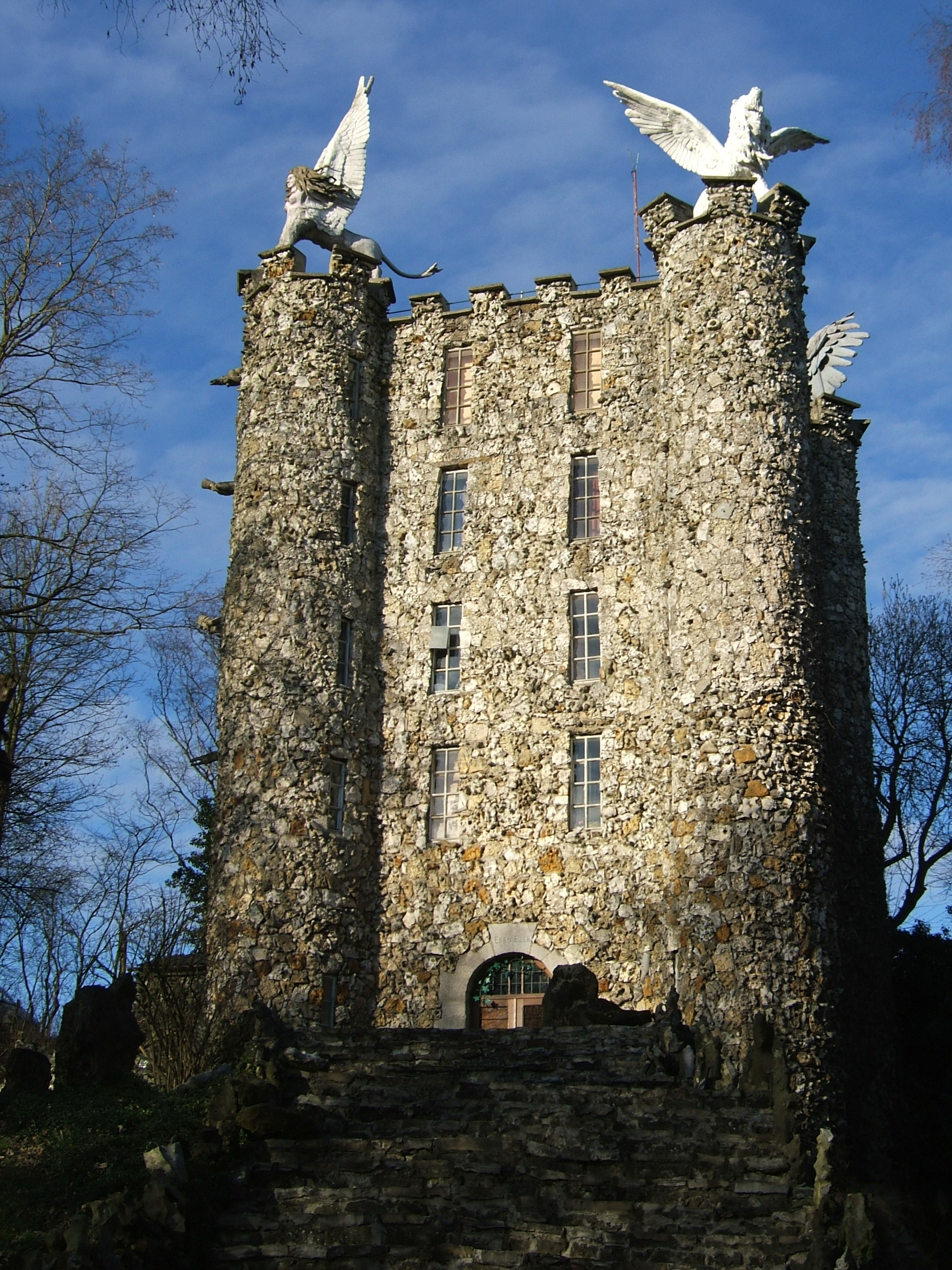 From the south with stairs and door: Eben-Ezer.